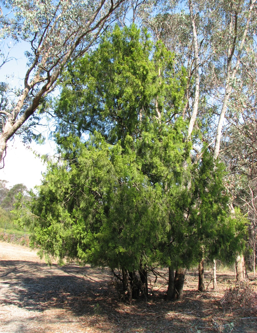 Exocarpos cupressiformis, Christmas Hills, Victoria, Australia.